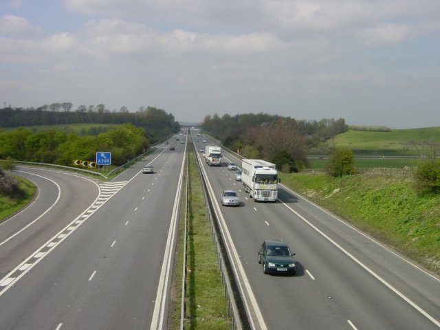 Junction 5, M2 motorway, Kent, England.